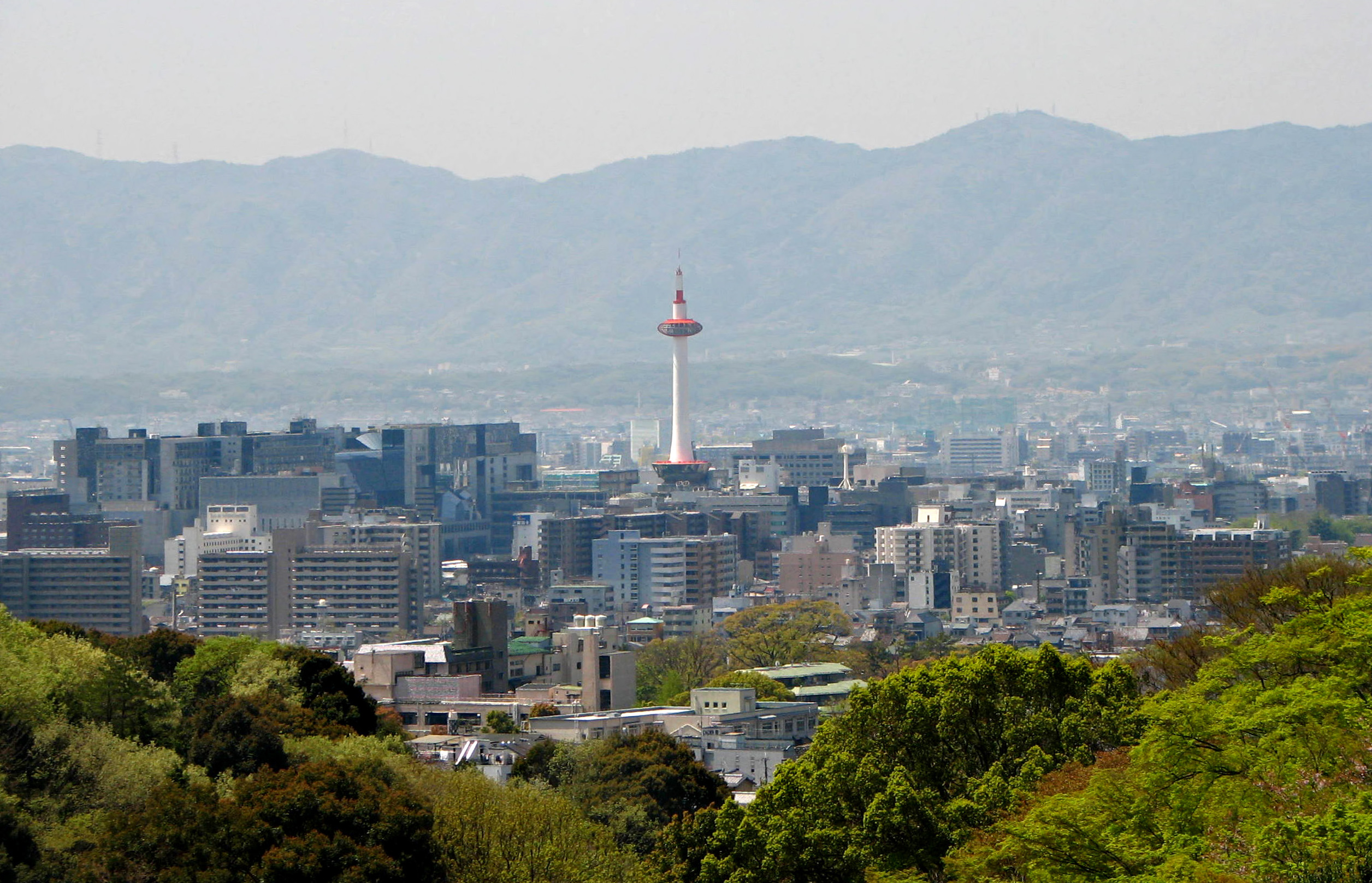 Kyoto, view from Kiyomisu-dera temple, Kyoto Prefecture, Japan